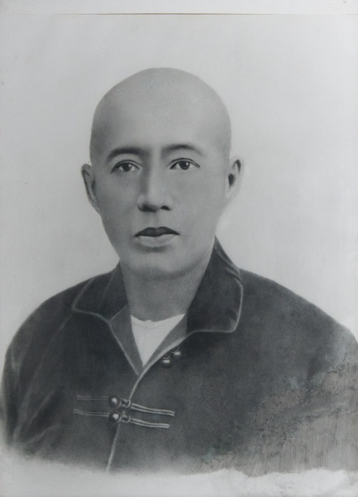 Portrait of Lie Tjoe Hong, 3rd Majoor der Chinezen of Batavia (now Jakarta)